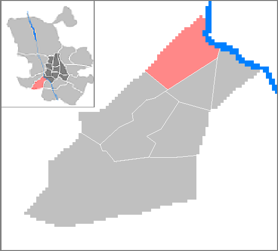 San Isidro quarter in Madrid